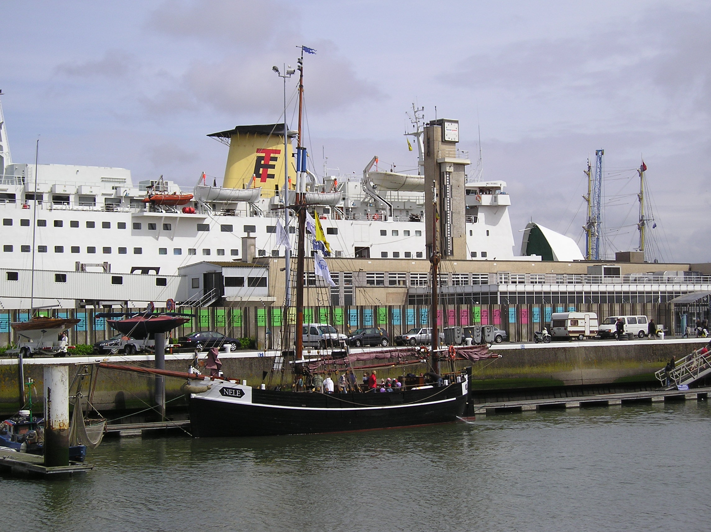 Belgian sailboat Nele in Ostend, Belgium.